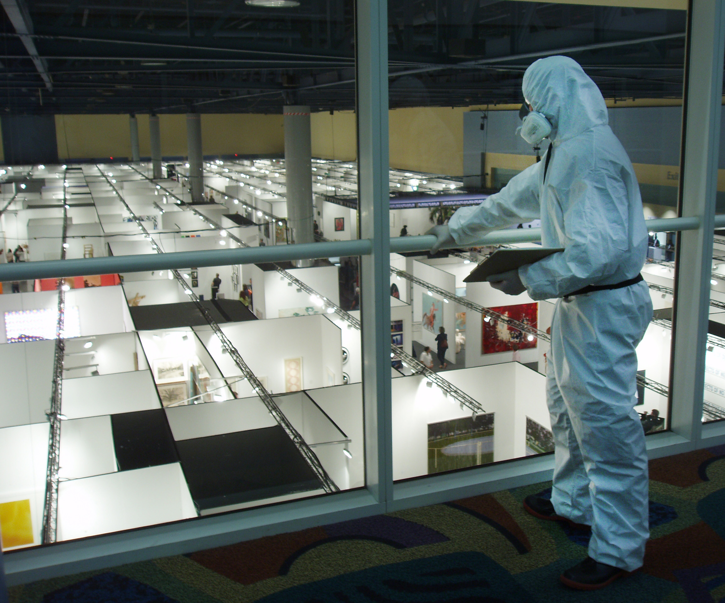 Johannes Grenzfurthner of monochrom acting as a CDC official at a staged virus outbreak at Art Basel Miami Beach 2005.